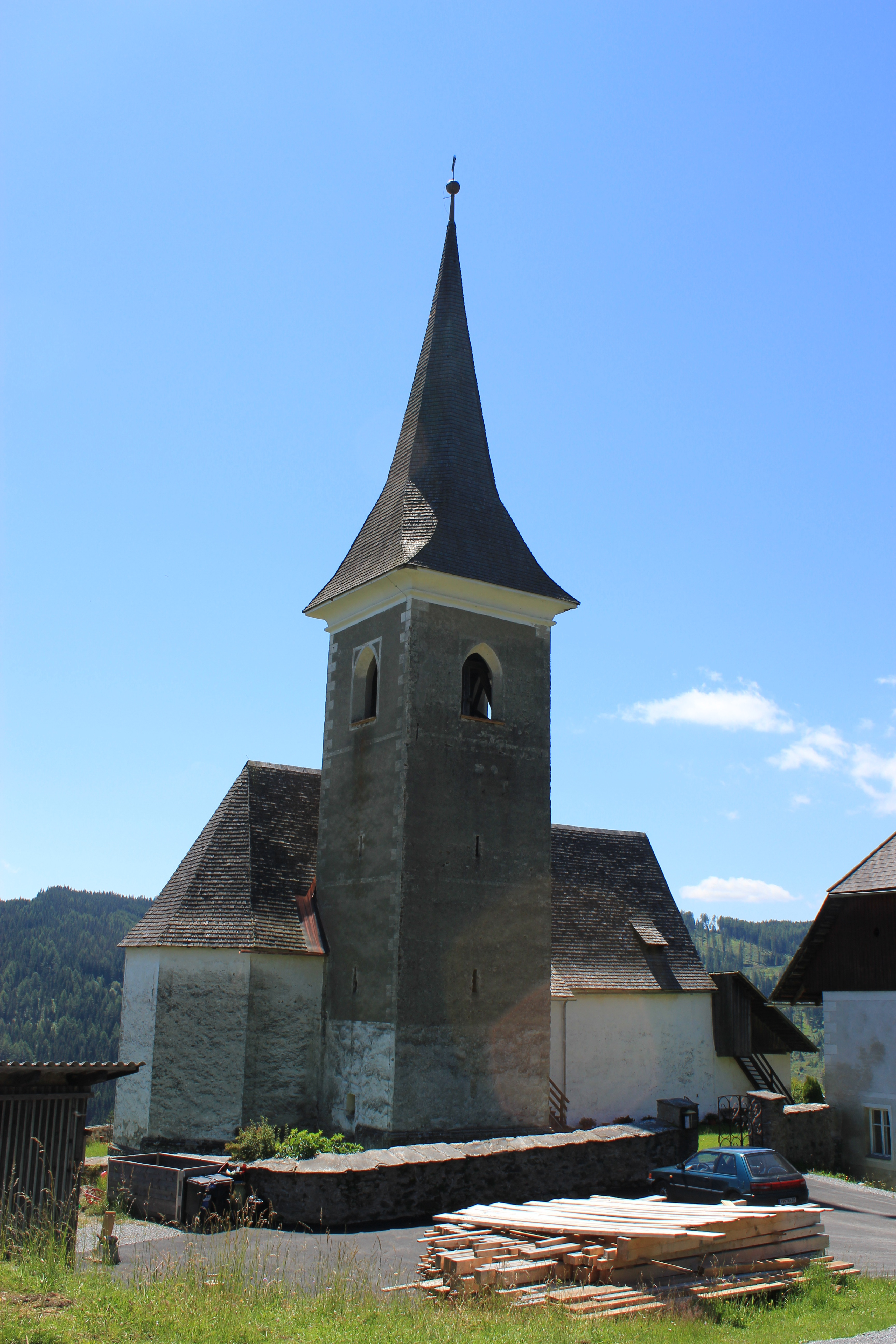 Parish church in Feitritz ob Grades in the community of Metnitz